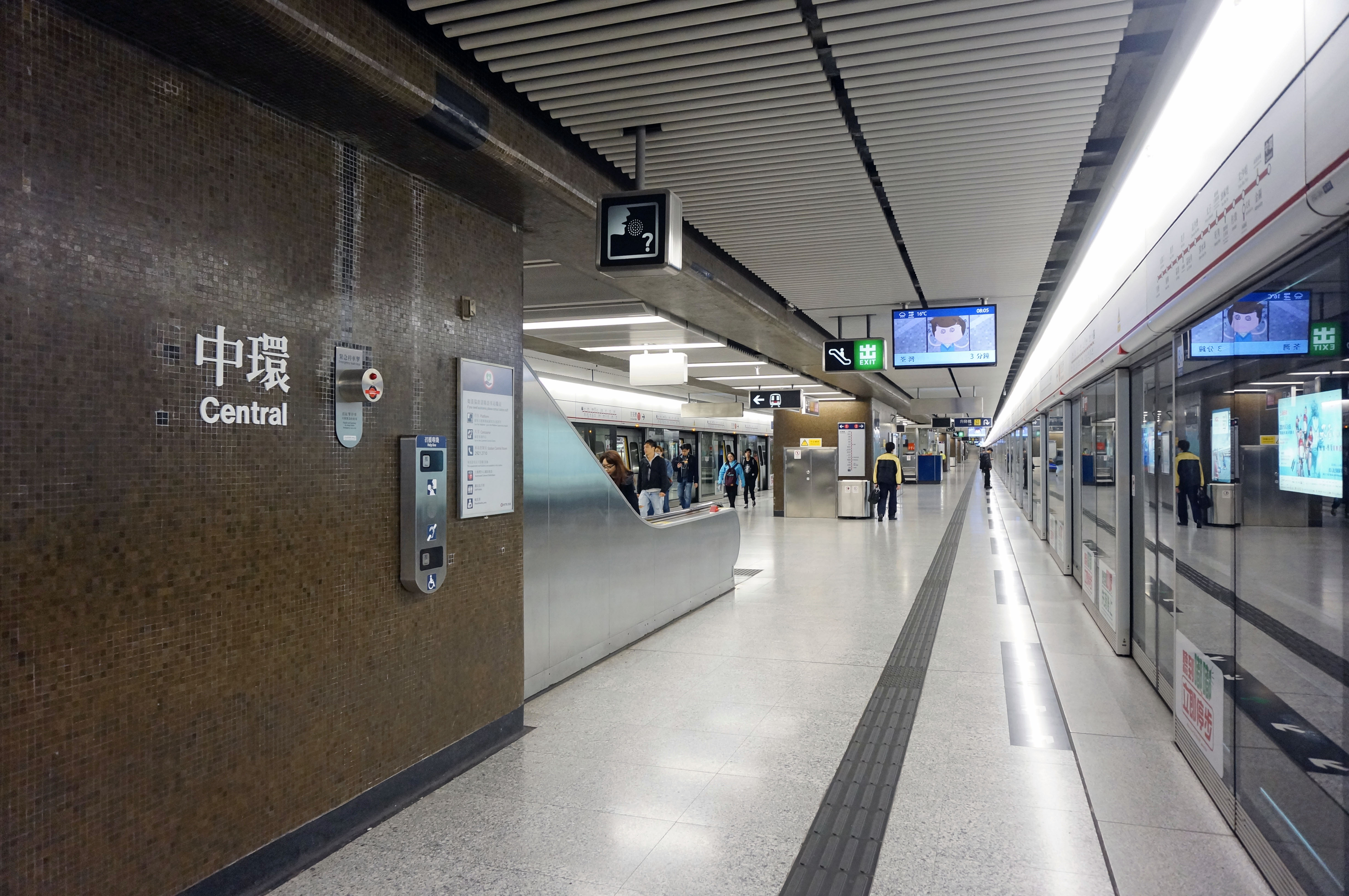 MTR Central station Tsuen Wan line platforms